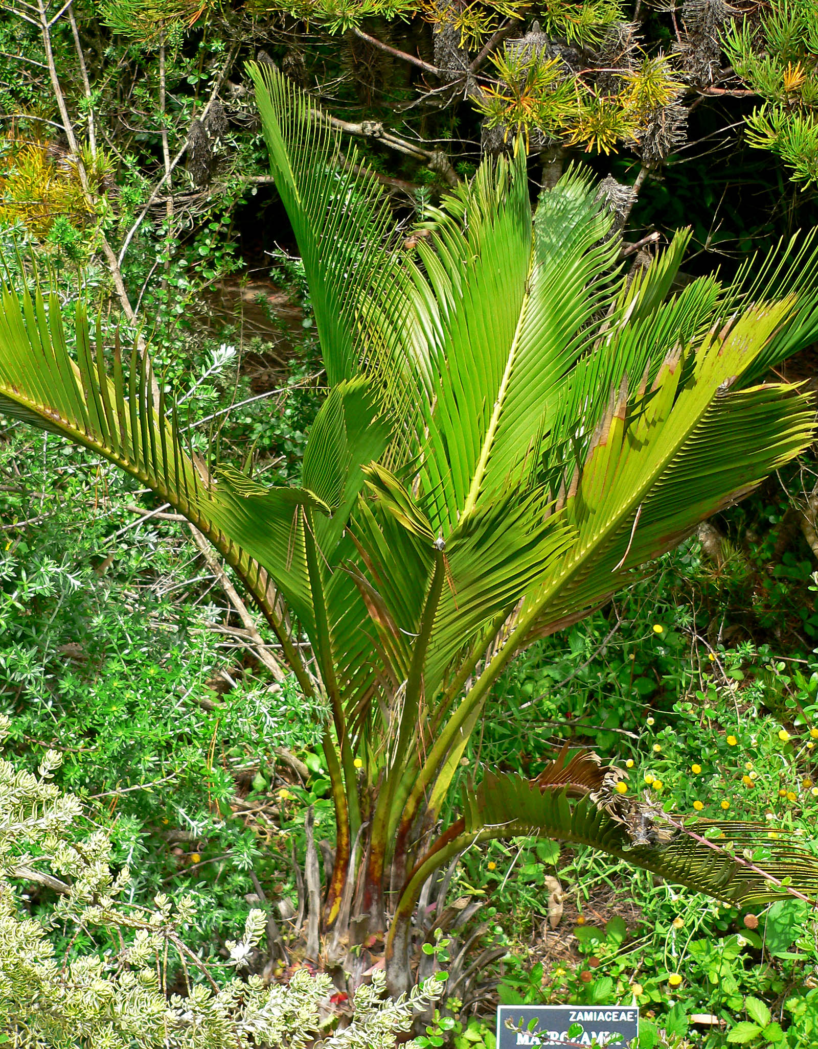 Photo of Macrozamia riedlei at the San Francisco Botanical Garden